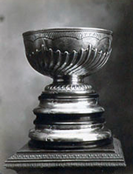 Reproduction of studio picture of Stanley Cup after win by Ottawa Senators in 1921.